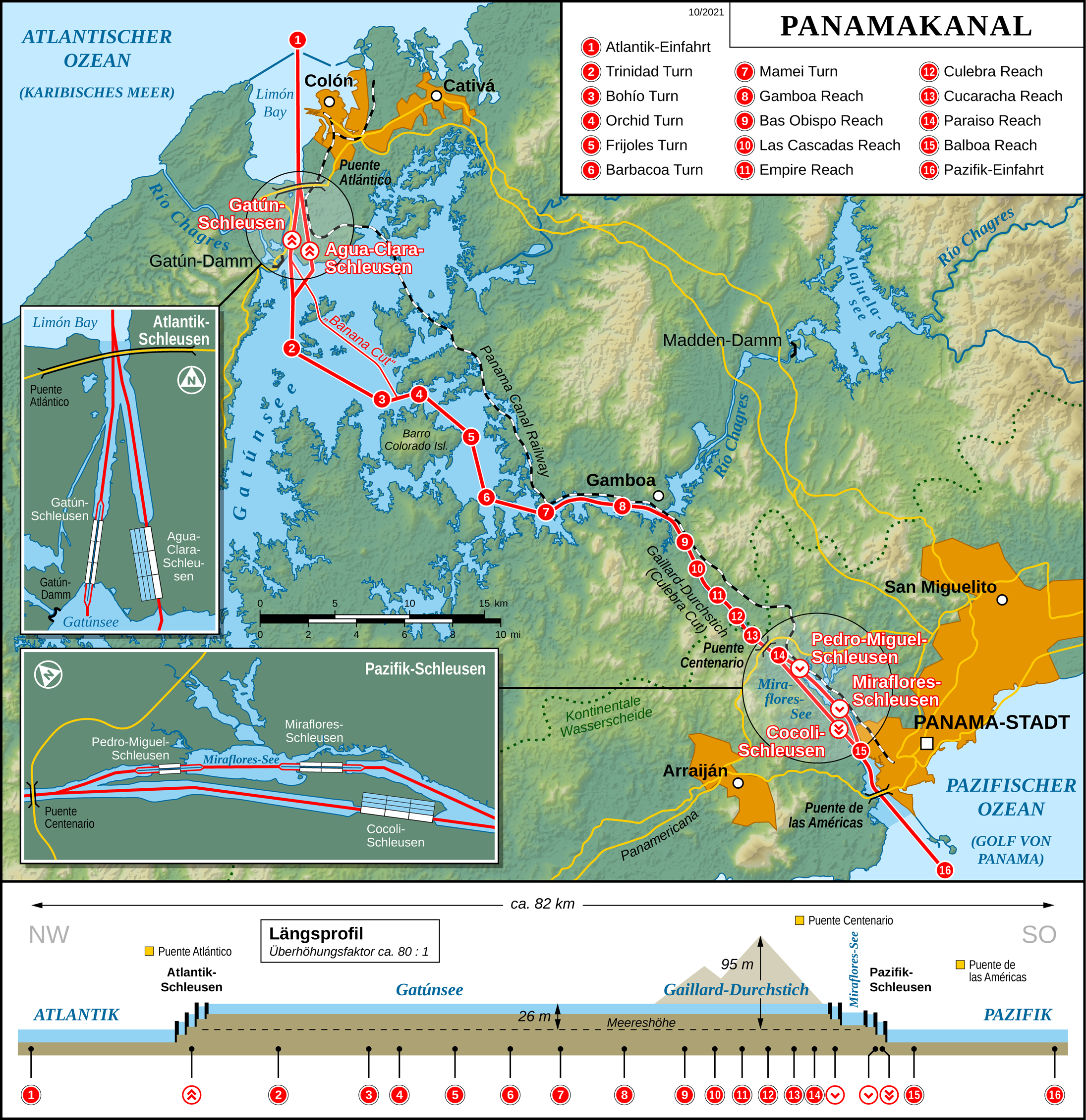 Map of the Panama Canal (German version)